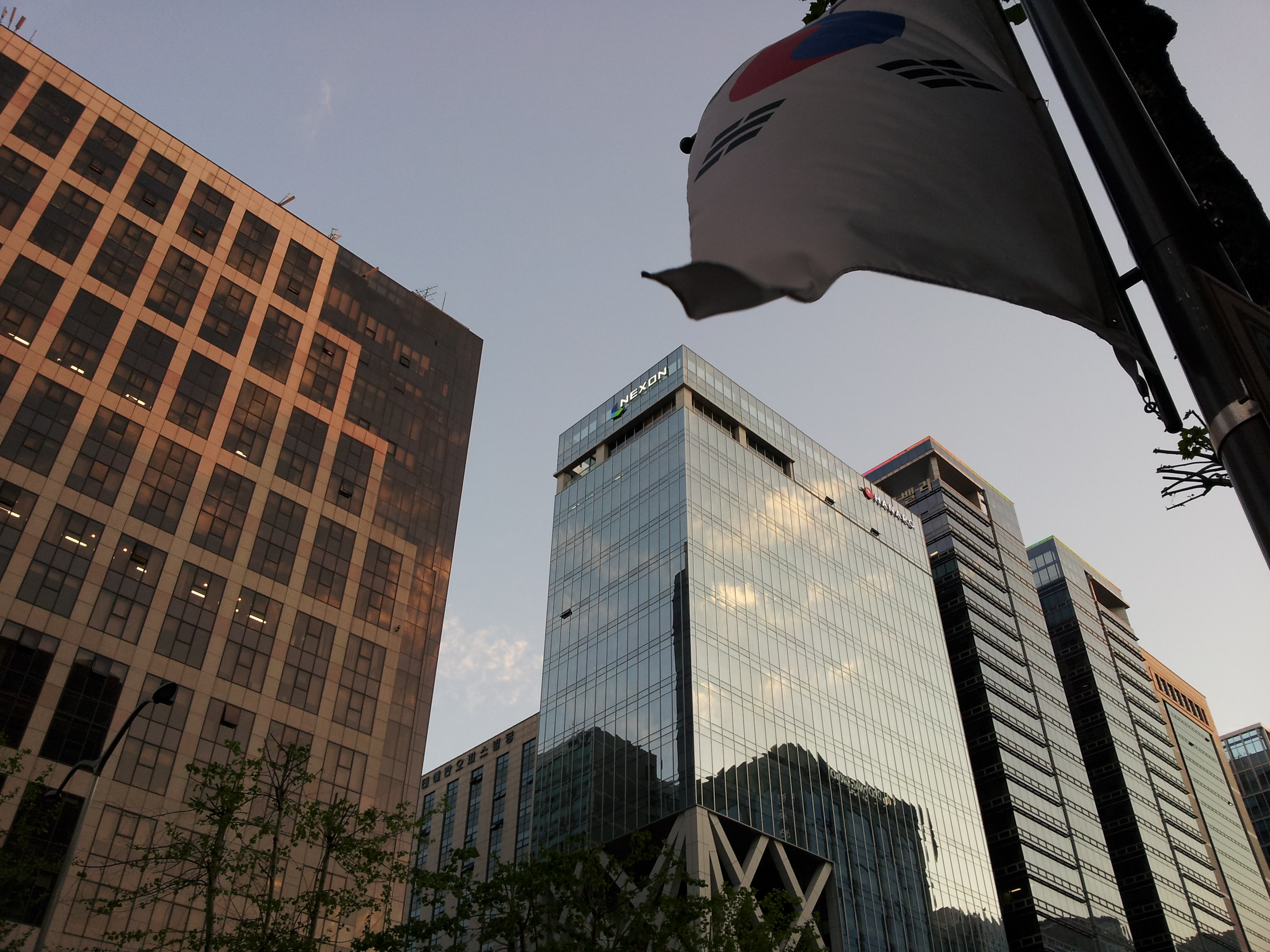 This picture is Nexon Korea's HQ Building in Teheran Street, Gang-Nam Gu, Seoul, Korea.